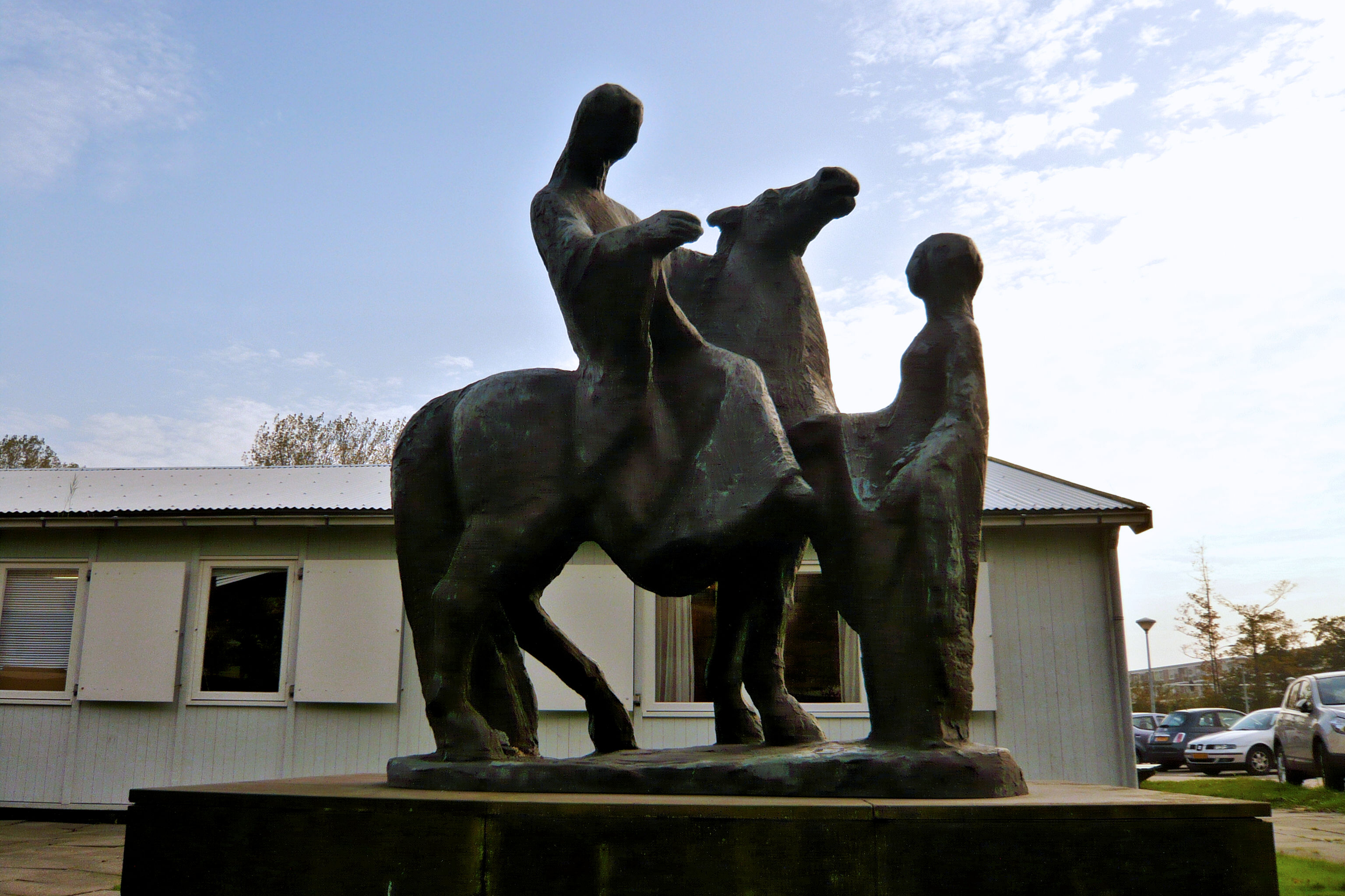 Elisabeth's roses are revealed to Ludwig (on Horseback). Miracle of the Roses, bronze meant for the rose garden of the St. Elisabeth Gasthuis (today Kennemer Gasthuis locatie Zuid, the rose garden has made way for a parking lot), Sculpture garden, Boerhaavelaan, Haarlem